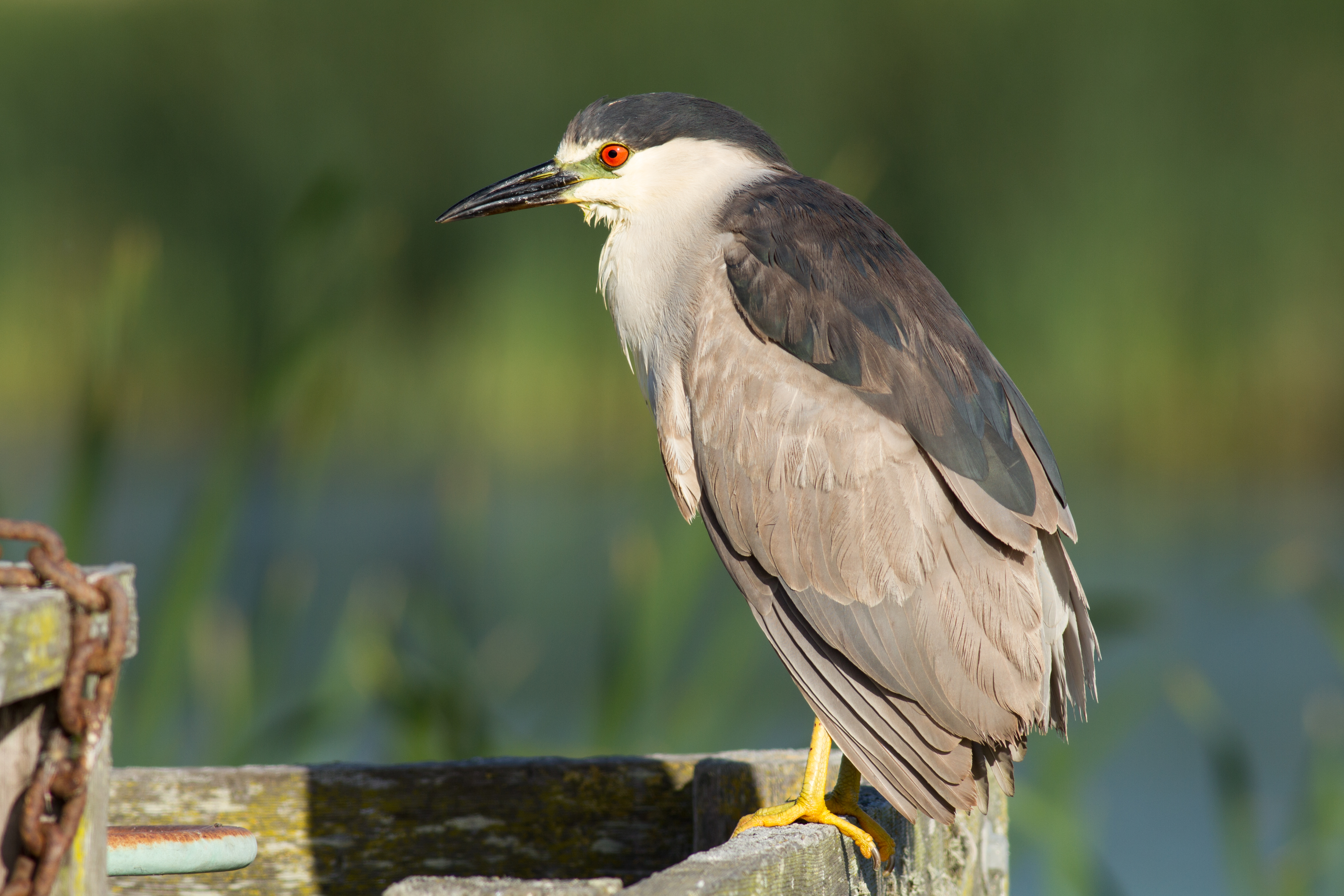 Black-crowned night-heron (Nycticorax nycticorax) at Las Gallinas Wildlife Ponds, Marin County, California.